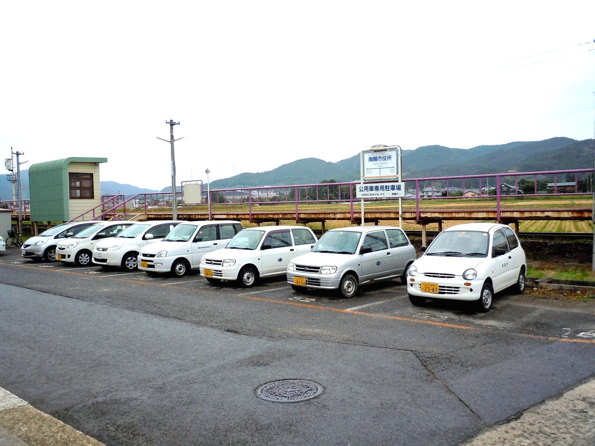 Nanyo-Shiyakusho Station on the Yamagata Railway Flower Nagai Line